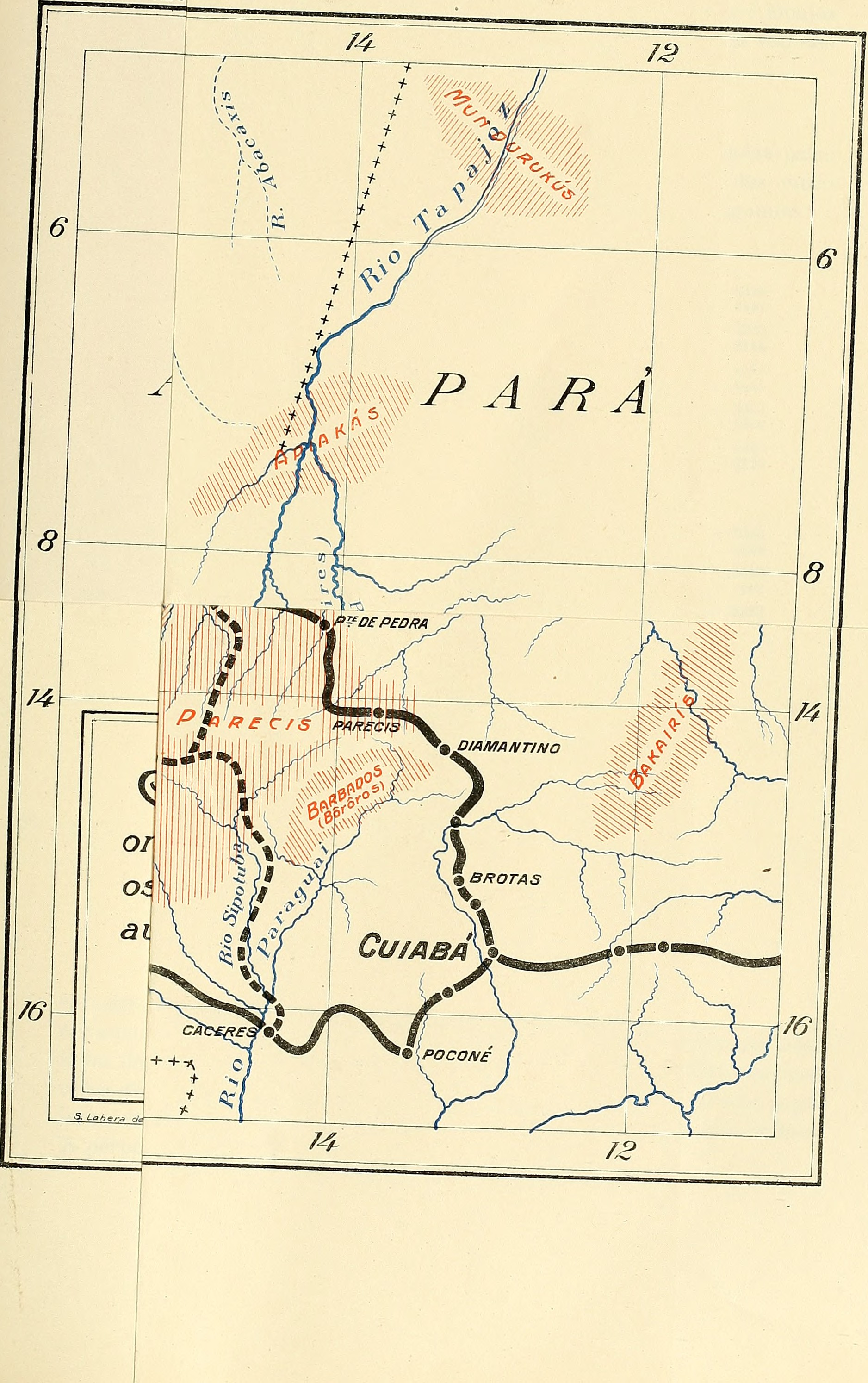 Title: Archivos do Museu Nacional Year: 1876-1935. (1870s) Authors: Museu Nacional (Brazil) Subjects: Science; Natural history; Ethnology Publisher: Rio de Janeiro : Imprensa Industrial Text Appearing Before Image: ARcmvos DO Text Appearing After Image: '